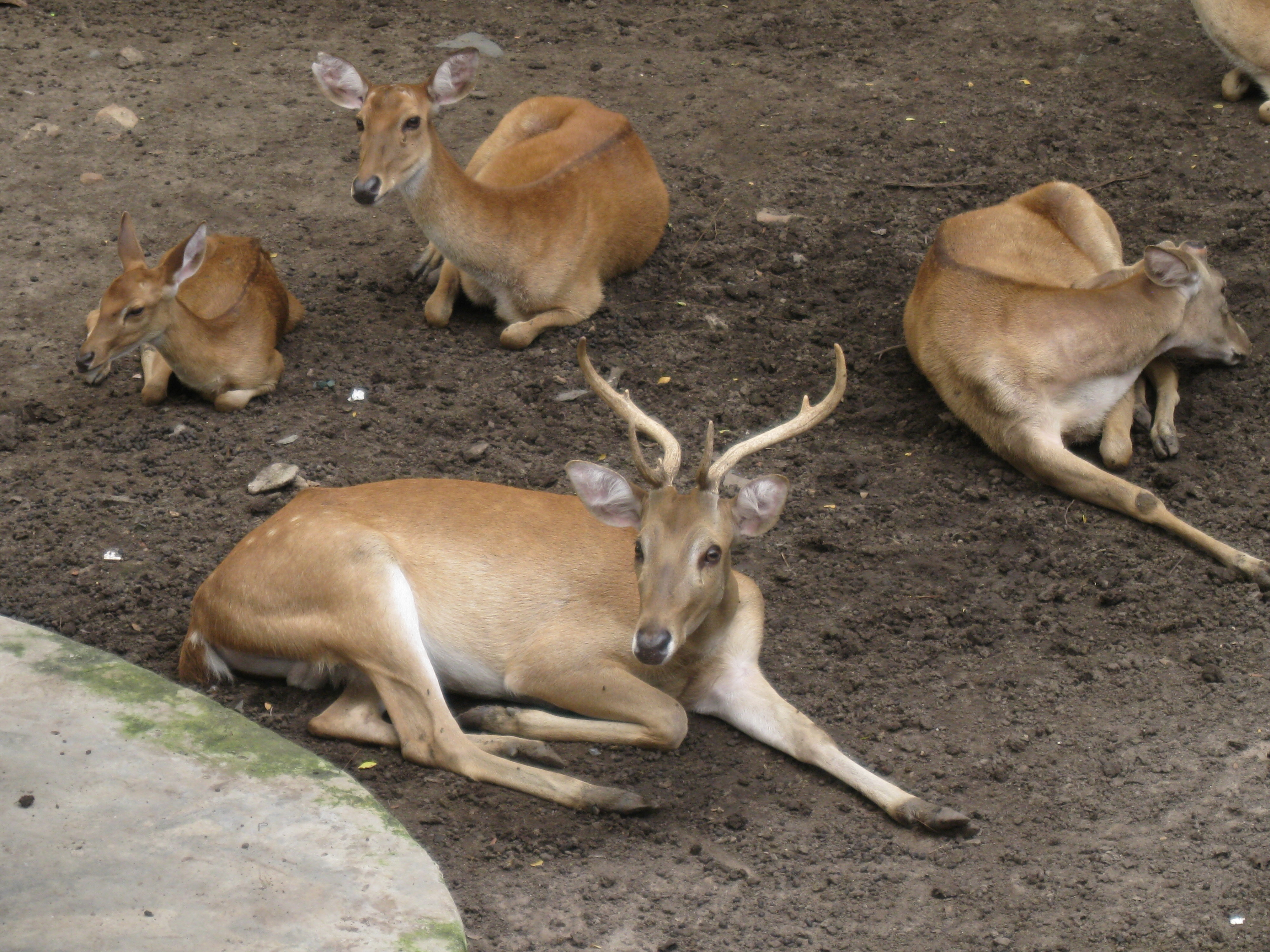 Axis porcinus family, Saigon Zoo and Botanical Gardens.